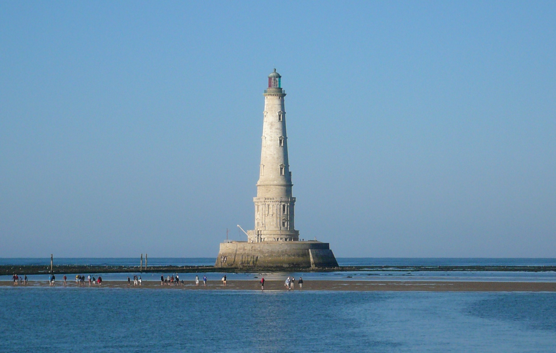 The Cordouan lighthouse at low tide.